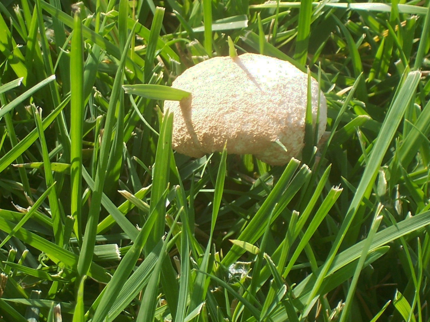 Photograph by Daniel Puleo. Donated to Wikipedia. These pictures also appeared on , BTW.Steve Dufour 05:50, 15 July 2006 (UTC)